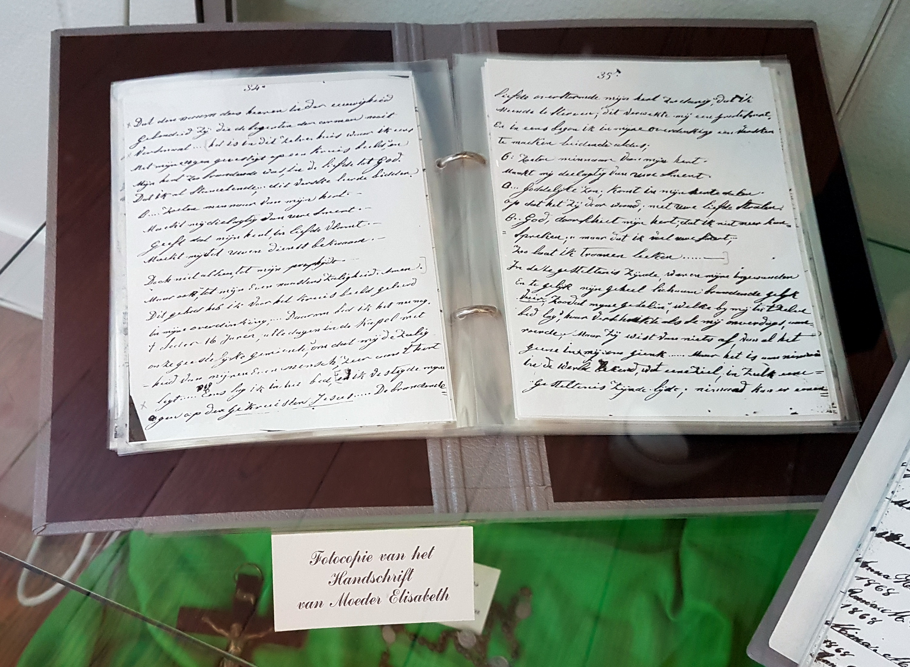 Convent of the Sisters of Mercy of St. Borromeo (Zusters Onder de Bogen) in Maastricht, the Netherlands. Interior of a museum room in the former provostry of Saint Servatius. In 1845 this building became the convent of the Sisters of Mercy of St. Borromeo and in 1864 this is where the congregation's foundress, Elisabeth Gruyters, died. The objects in these rooms are connected to Mother Elisabeth and the history of the congregation. This is a book with her handwriting.